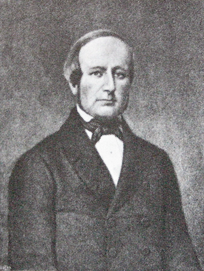 Image of Johan August Wahlberg (1810-1856) - painting hanging in Royal College of Forestry, Stockholm. The painter of this portrait is long deceased.